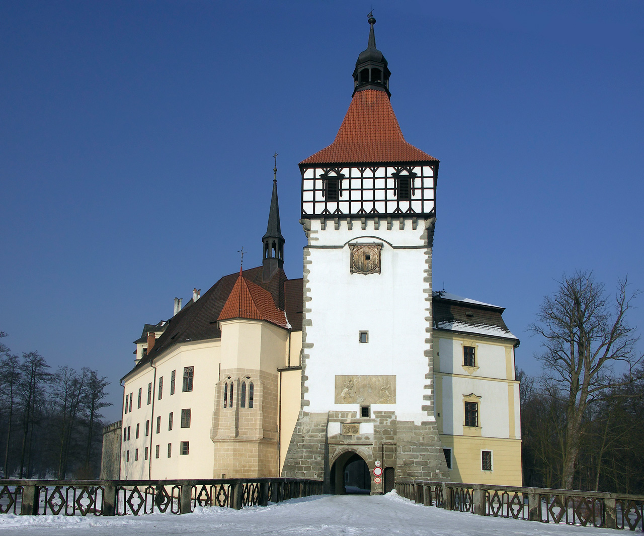 Front view of the castle in Blatná (CZE)